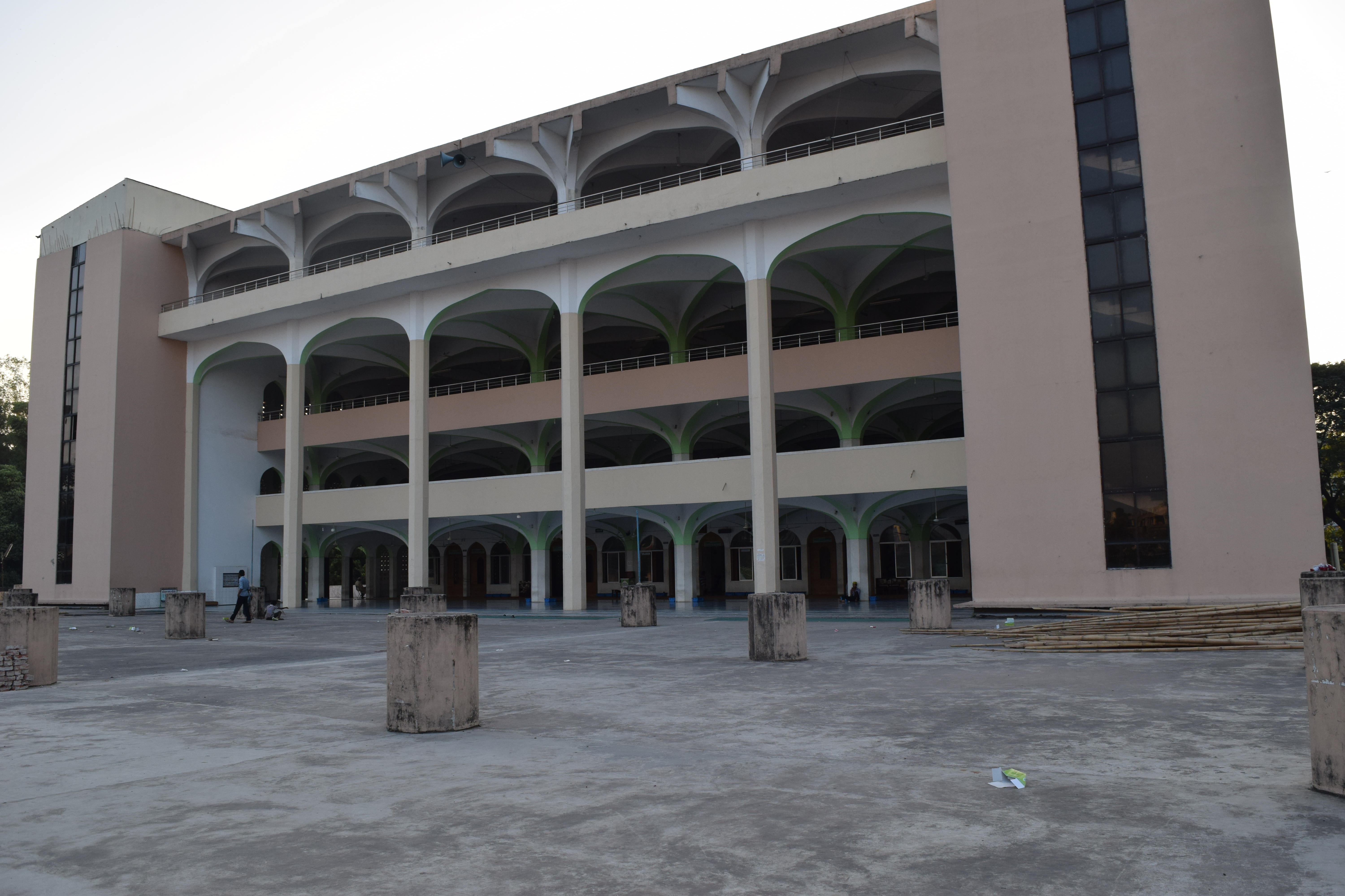 Jamiatul Falah Mosque